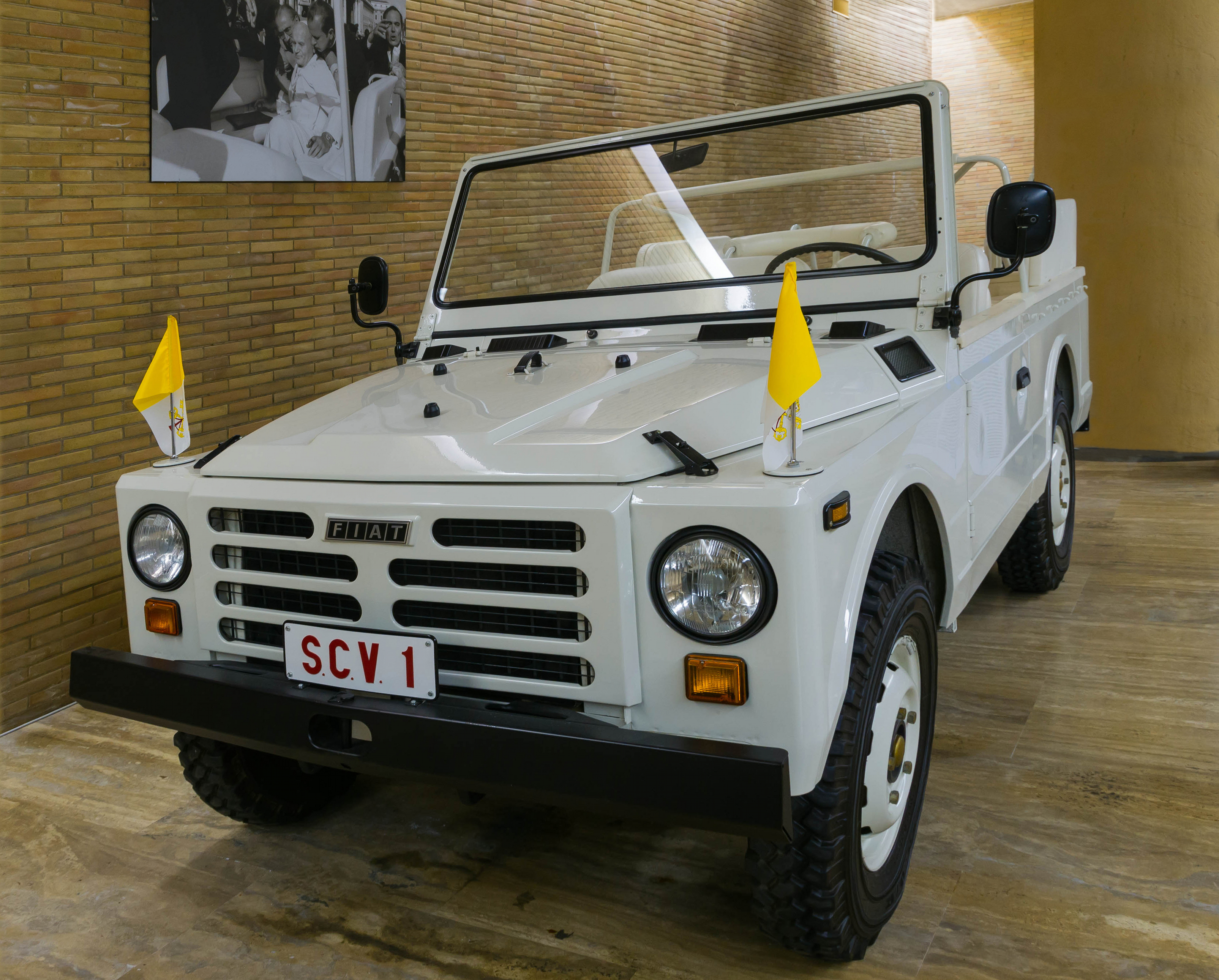 In this "popemobile", saint Pope John Paul II was seriously injured by the assassination attempt perpetrated by Mehmet Ali Ağca, Piazza San Pietro, may 1981, 13th. Carriage museum, Vatican City.